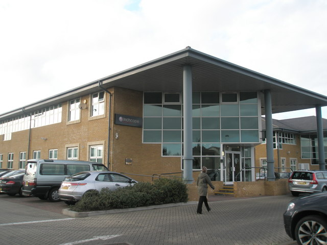 Inchcape, Clement Atlee Way